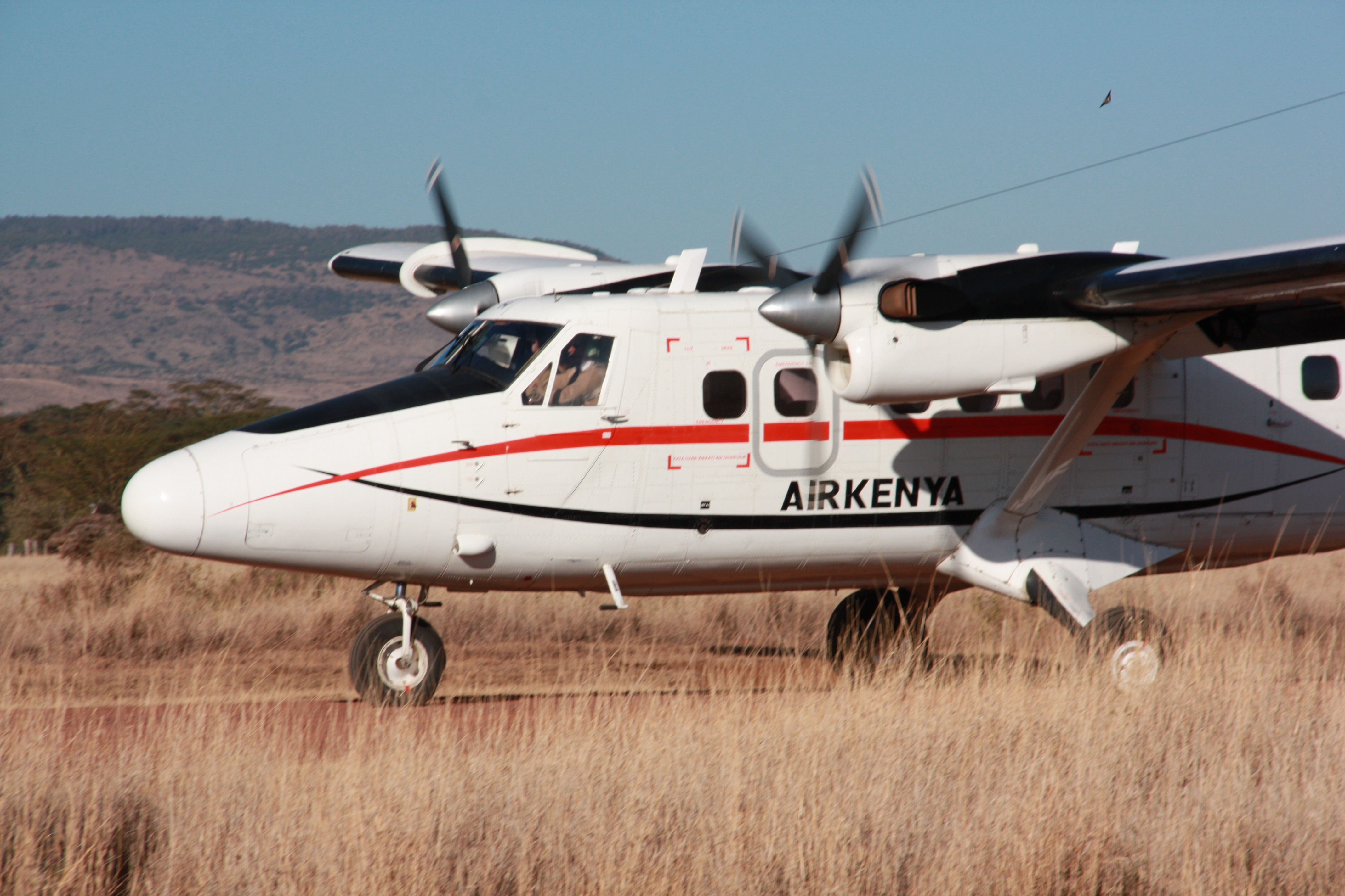 Air Kenya aircraft